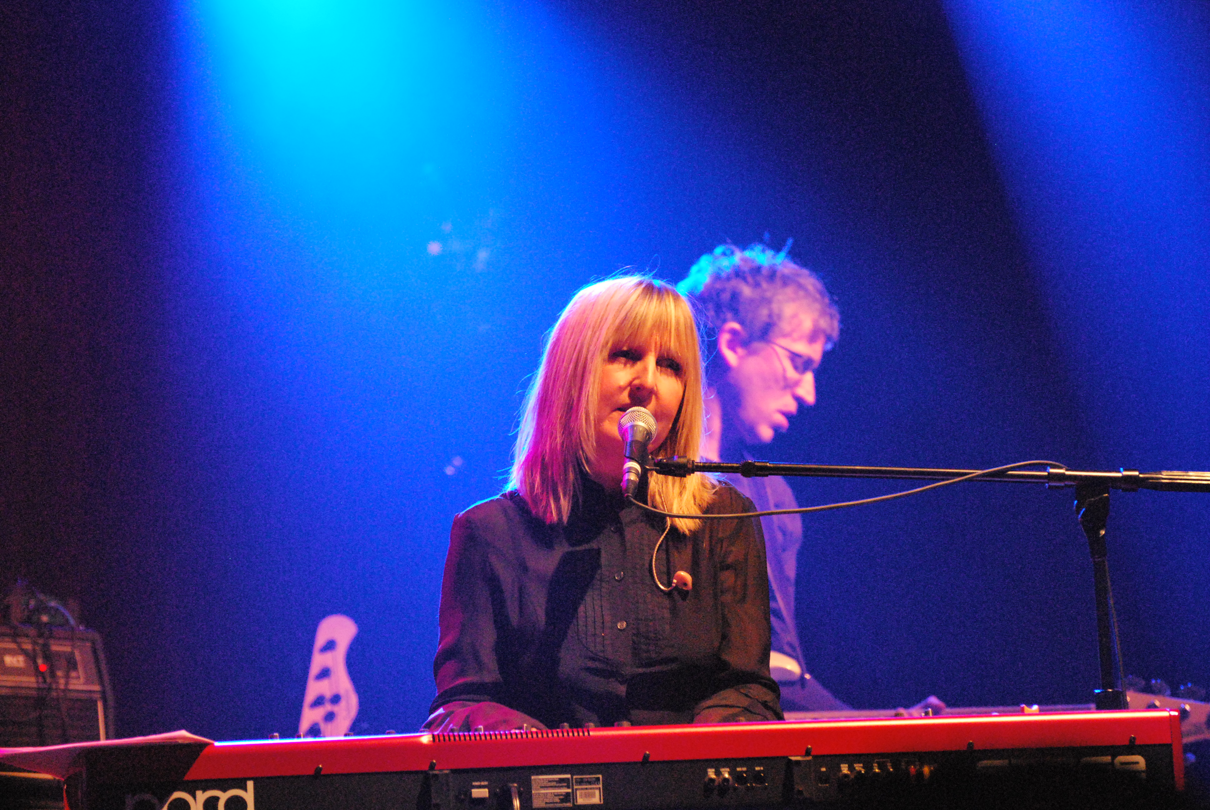 Donna Lewis at The Highline Ballroom in New York on December 26, 2009